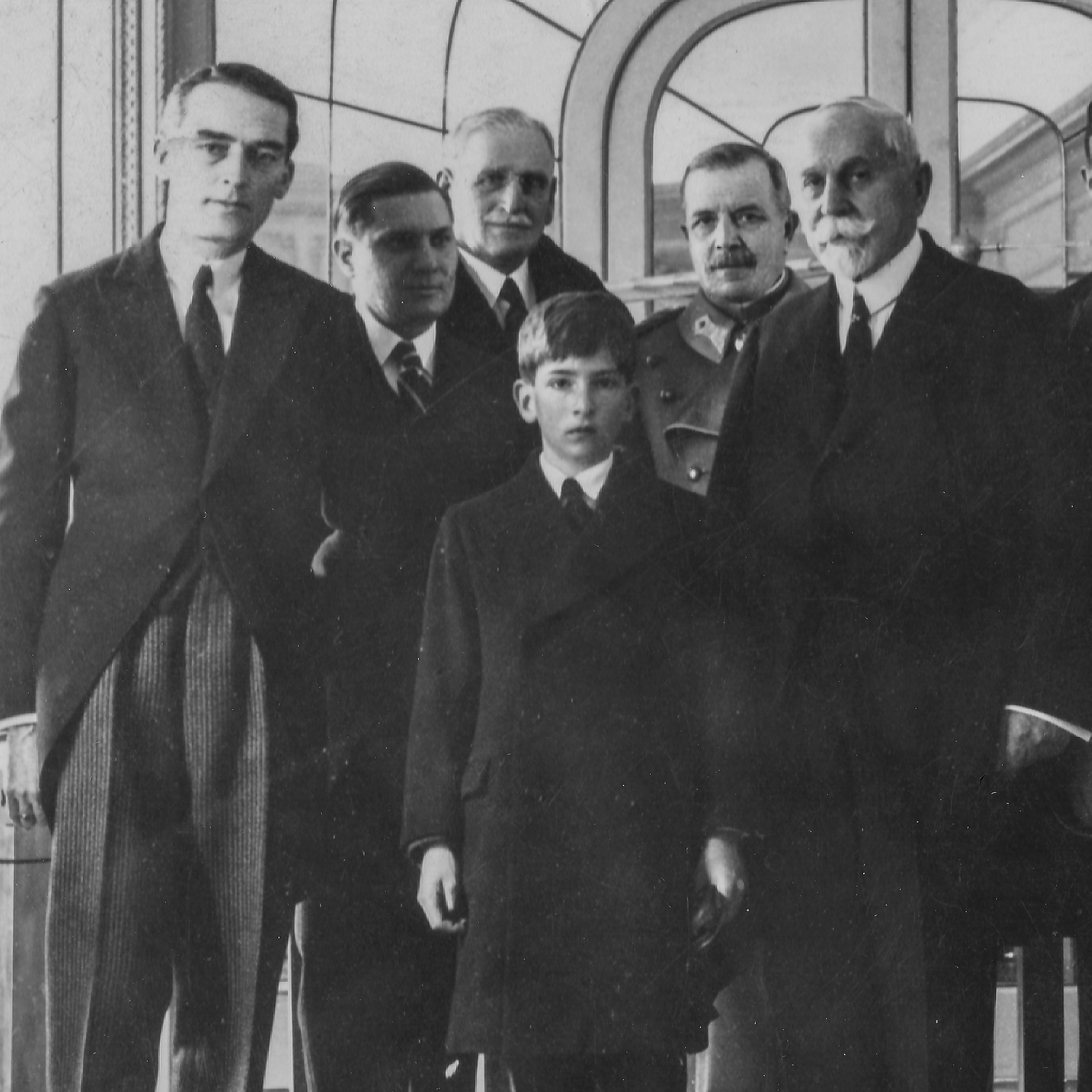 (from left too right) Aeroput director Tadija Sondermajer, unidentified, Marshall of the Court Slavko Grujić, Peter II, King of Yugoslavia, General Vojin Čolak-Antić, unidentified